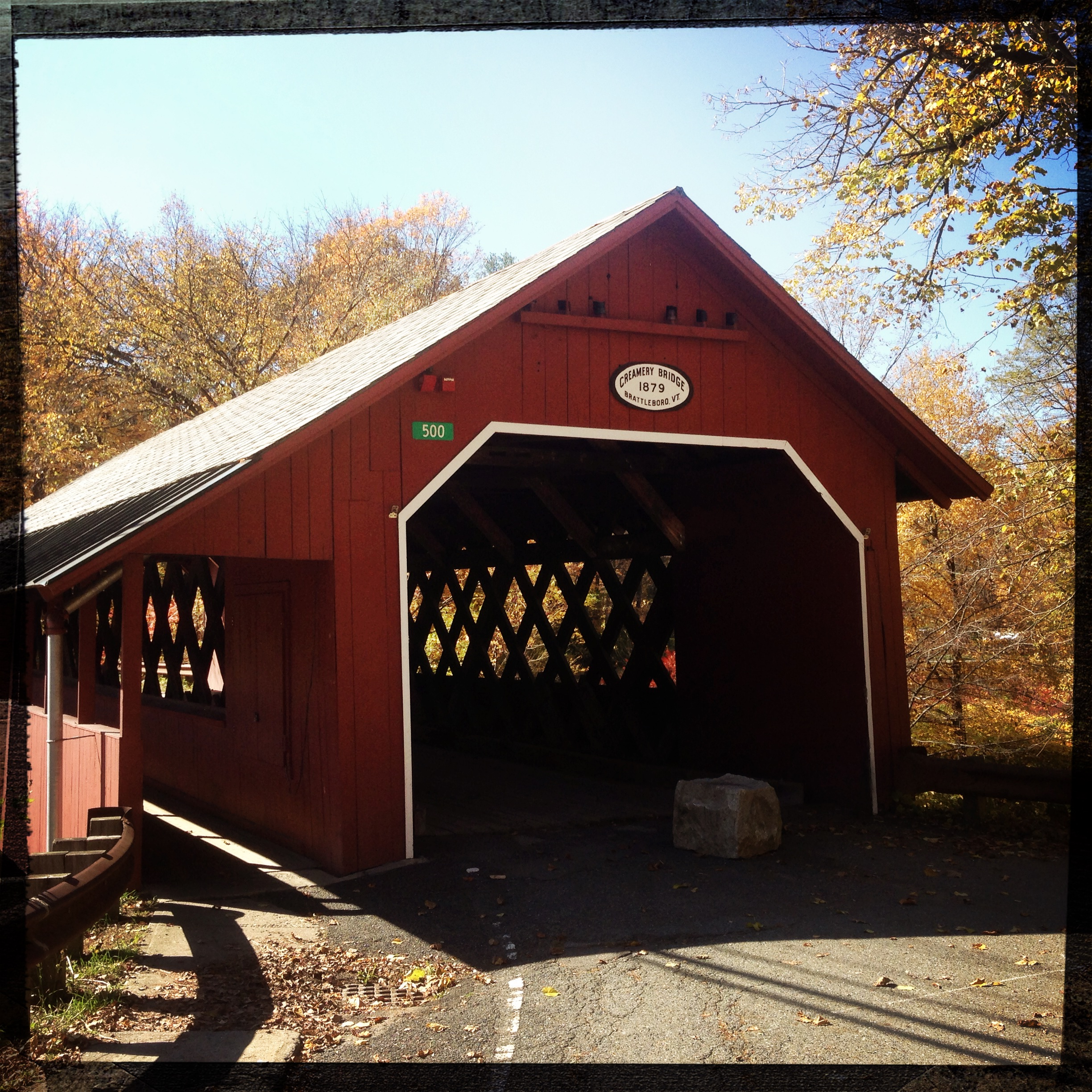 When in Vermont, there is no shame with embracing the cliché.